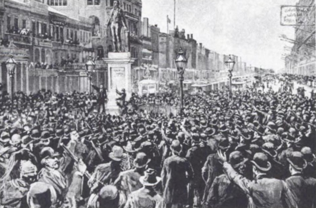 Speaker inciting the mob in New Orleans on March 14, 1891